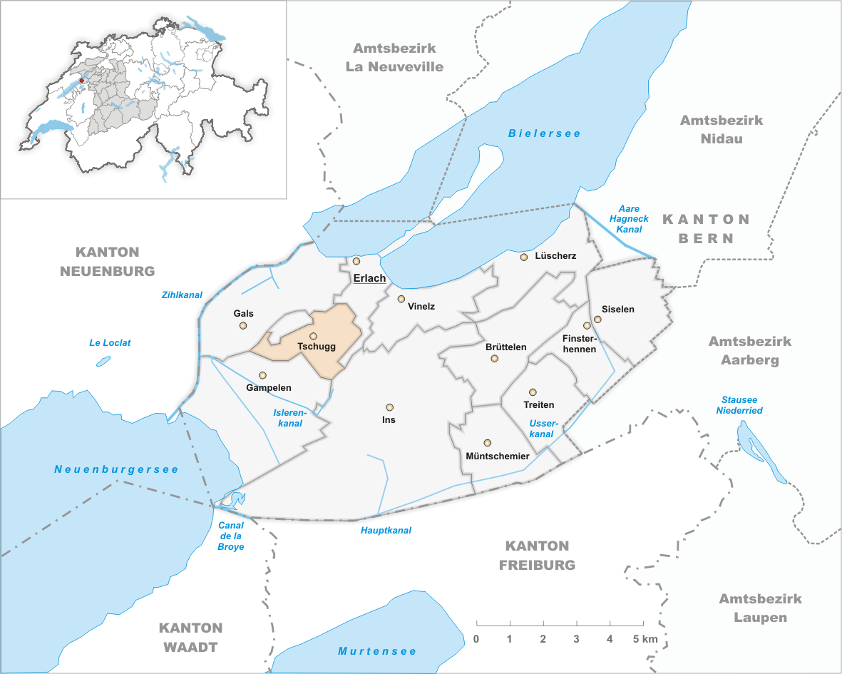 Municipality Tschugg